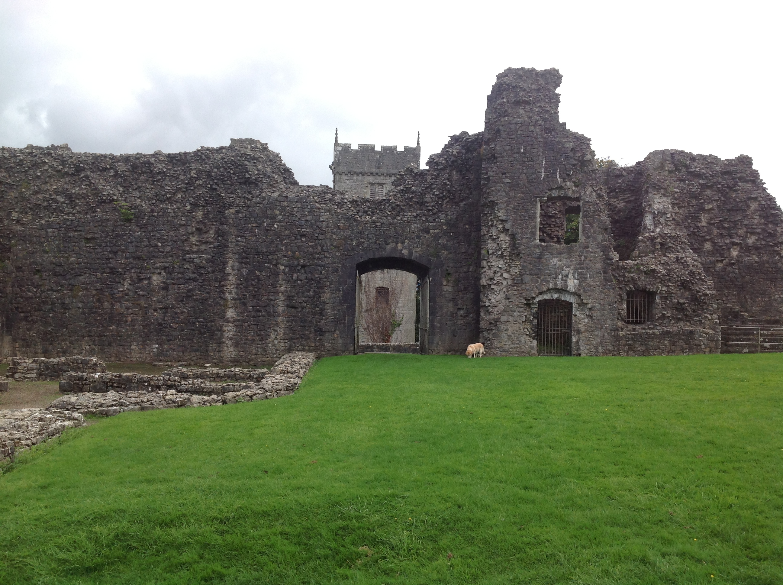 Newcastle Castle, Bridgend, Wales. Interior of south wall, Portal with mural towers, St Illtyd Church behind12th Century Norman masonry castle. First mentioned in 1106.